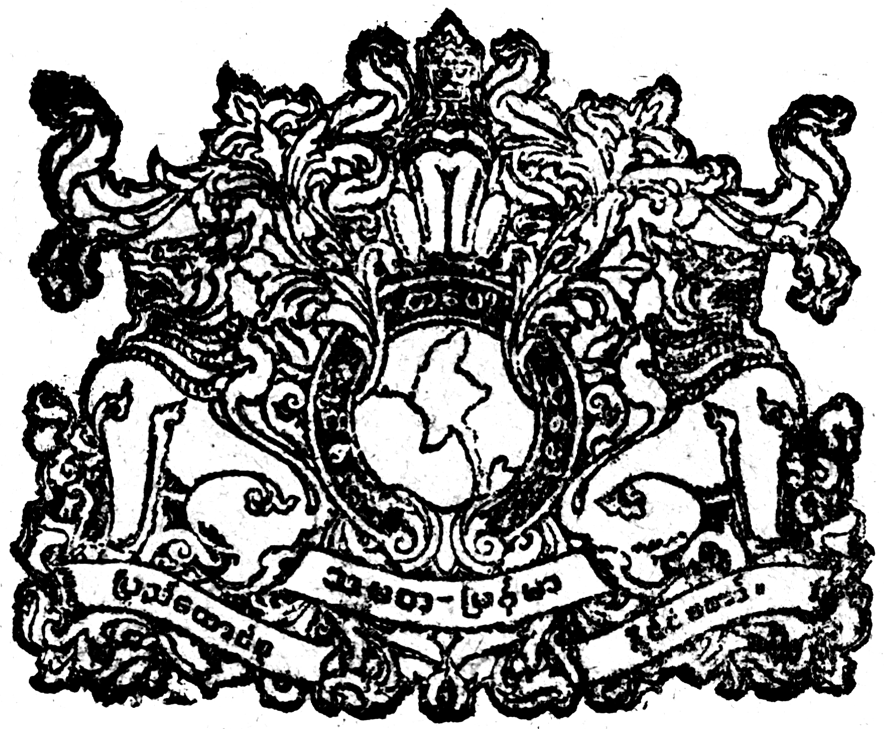 State seal of Burma (1948–1974), showing a chinthe at the top (replaced in later versions by a star), two chinthes facing away from each other as supporters, and a map of Burma in a circle surrounded by Verse 194 of the Buddhavagga in the Dhammapada in Pali: မြန်မာဘာသာ: သမဂ္ဂါနံ တပေါ သုခေါ (samagganam tapo sukho), which translates as "happiness through harmony" or "well-being through unity". The banner contains the Burmese text မြန်မာဘာသာ: ပြည်ထောင်စုမြန်မာနိုင်ငံတော်, which translates as "Union of Burma".